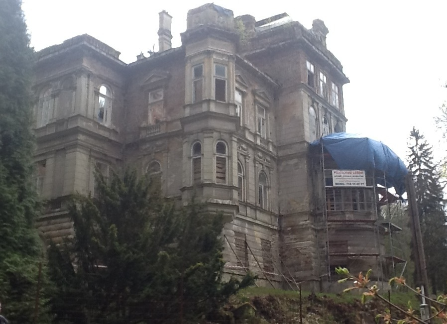 Mattoni Villa 2014